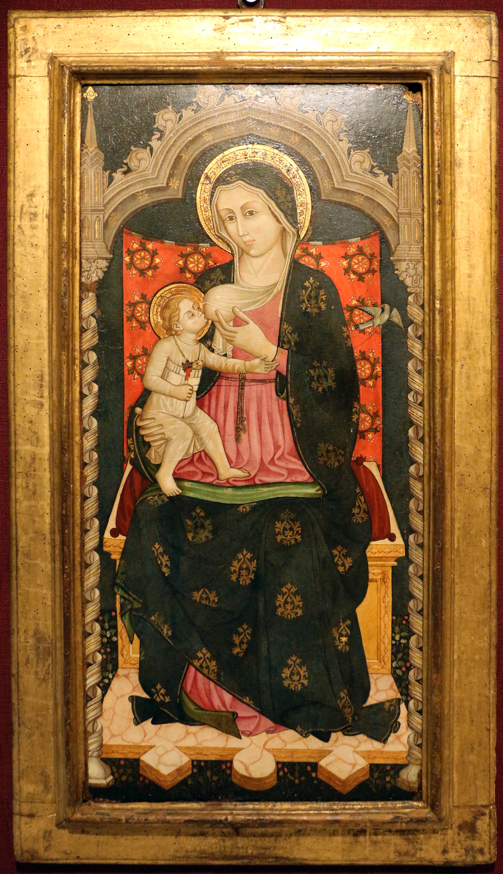 Il Tesoro d'Italia (exhibition at Expo 2015)